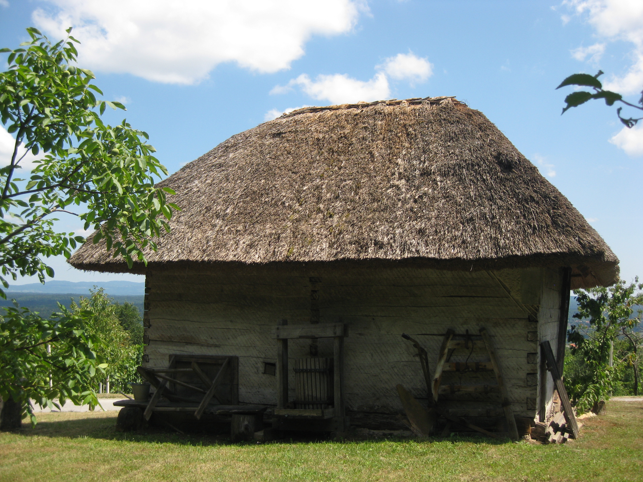 Ankin his, cottage in Bela Krajina, Slovenia